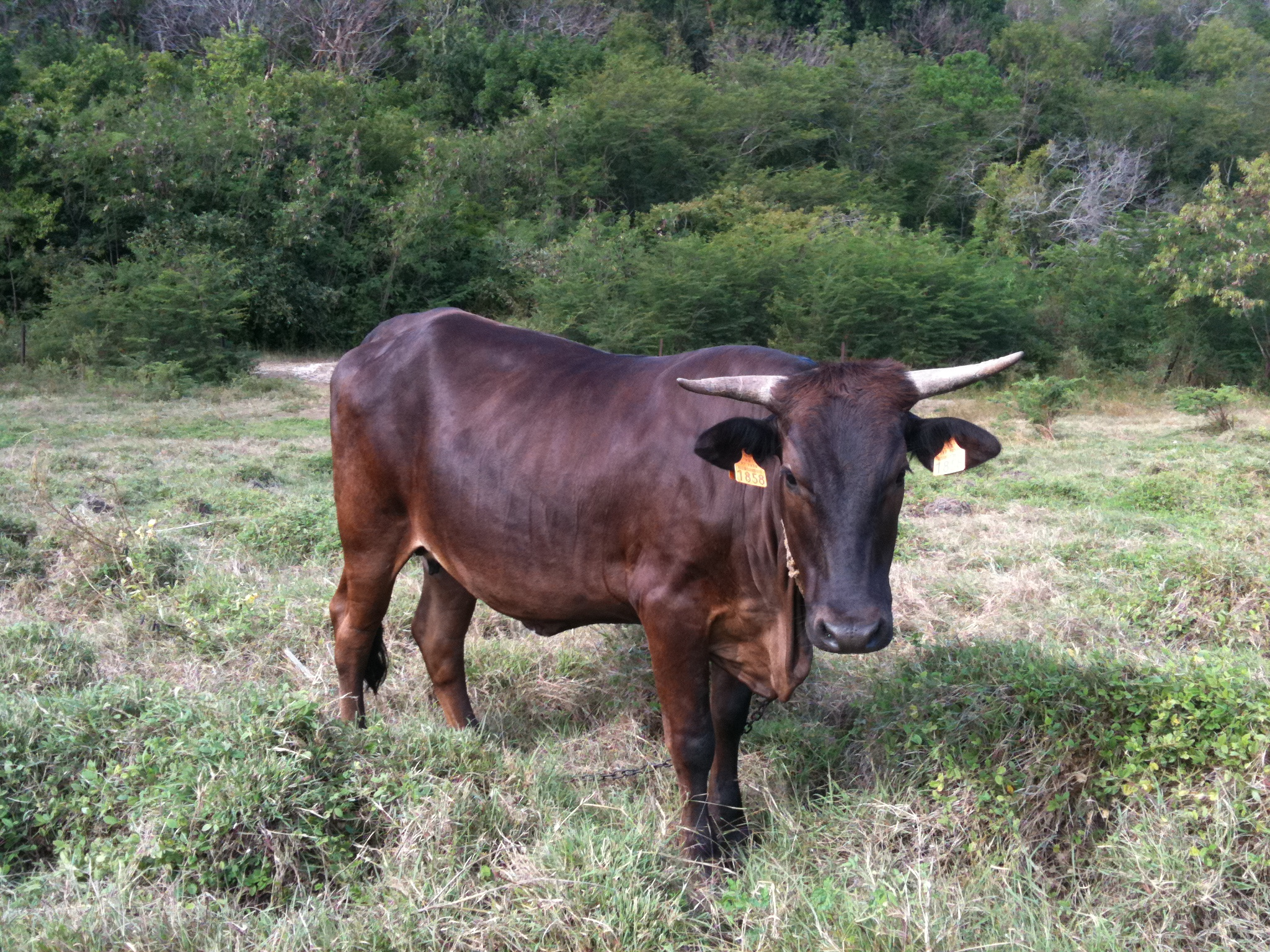 Creole cow (cattle breed)